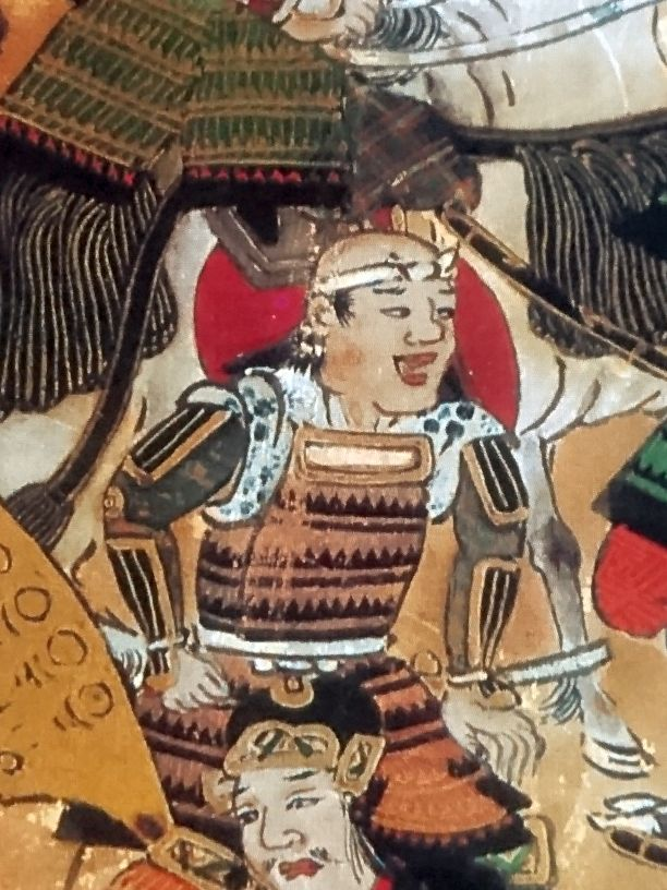 Sadayoshi Kusakabe